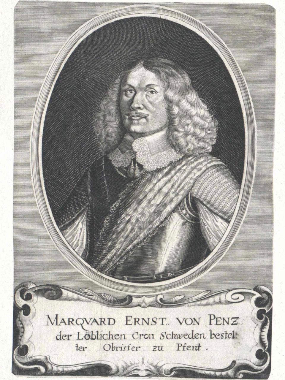 Marquard Ernst v. Pentz (1613-1657), Raguther Linie